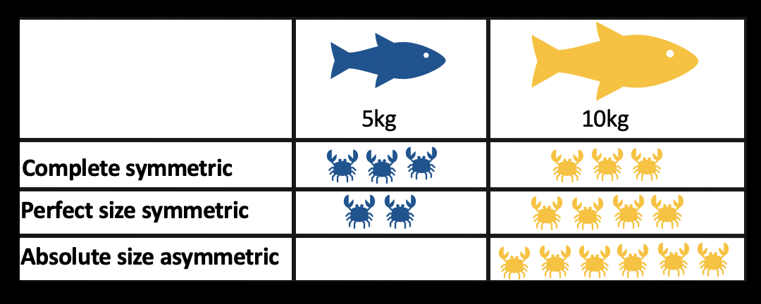 A cartoon style diagram giving visual representation of size-symmetric competition. Using fish as the consumers and crabs as the resources.